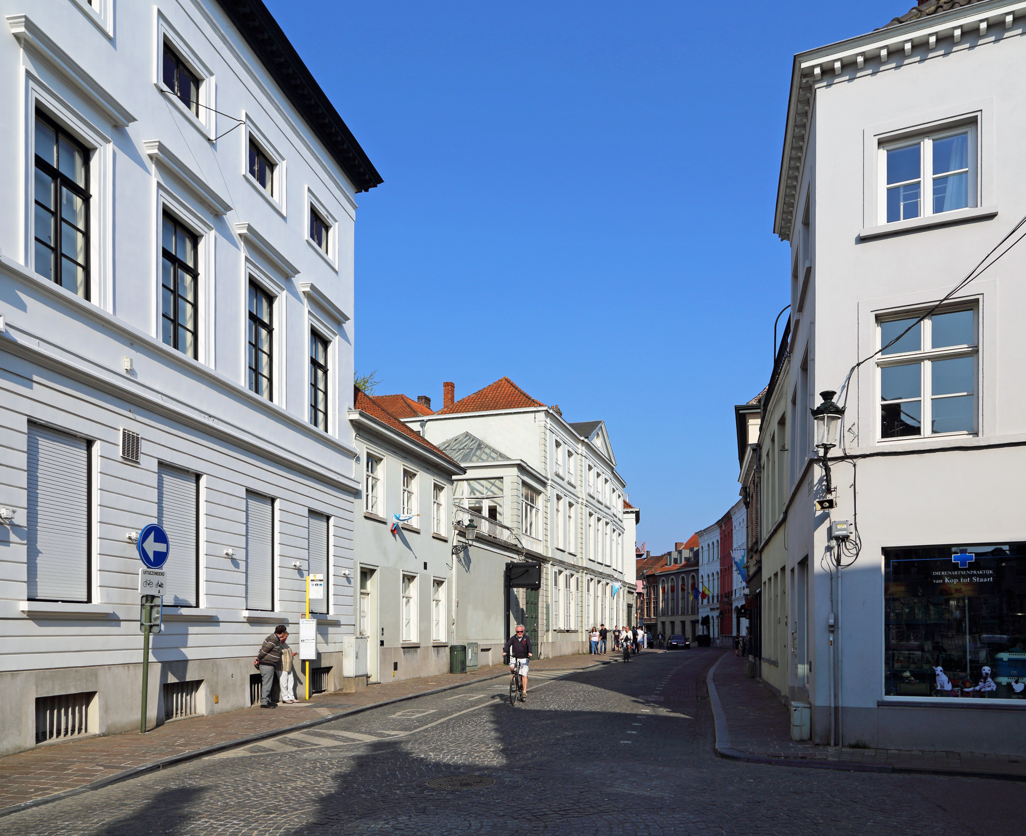 Bruges (Belgium): Langestraat